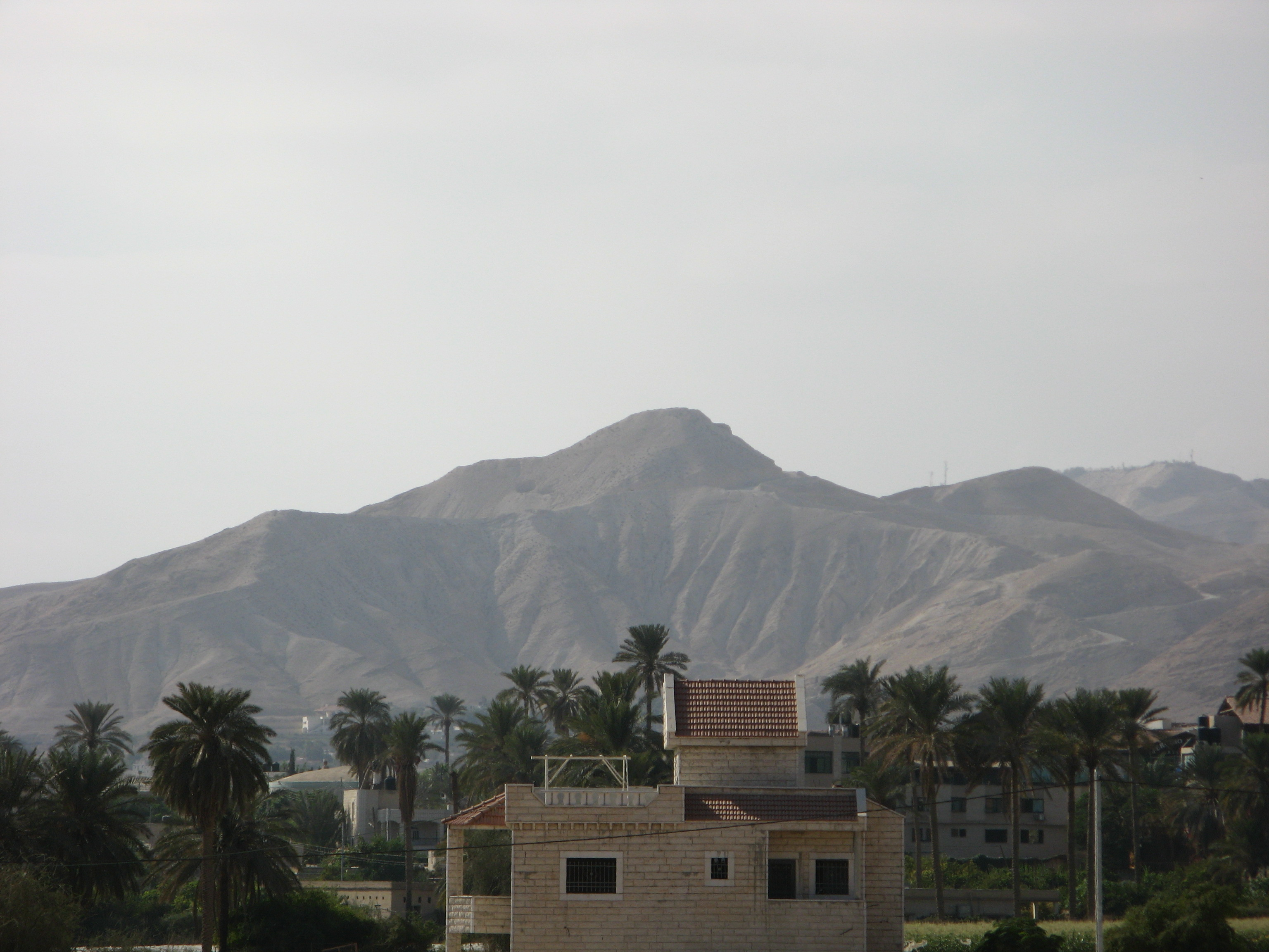 Cypros Fortress - from Jericho.